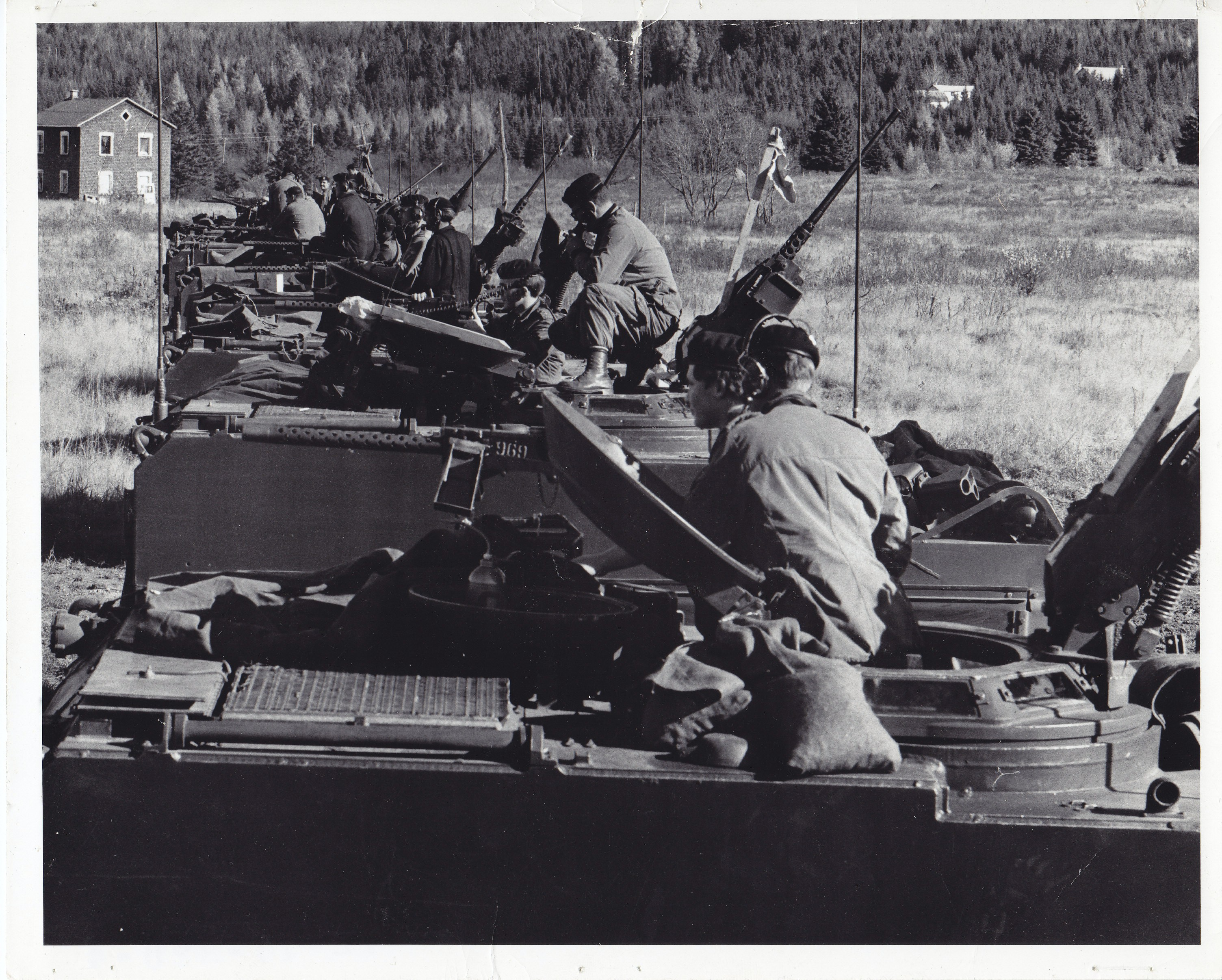 Reconnaissance Troop, Régiment de Hull, Camp Valcartier, 1976. The Regiment in its new role as a reconnaissance unit, on the Lynx APC.